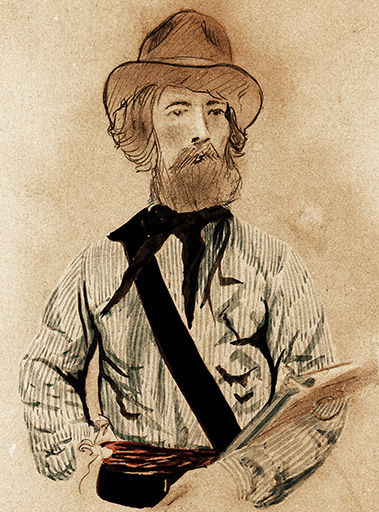 Self portrait of Joseph Goldsborough Bruff during his California expedition, 1849. Bruff died in 1889.